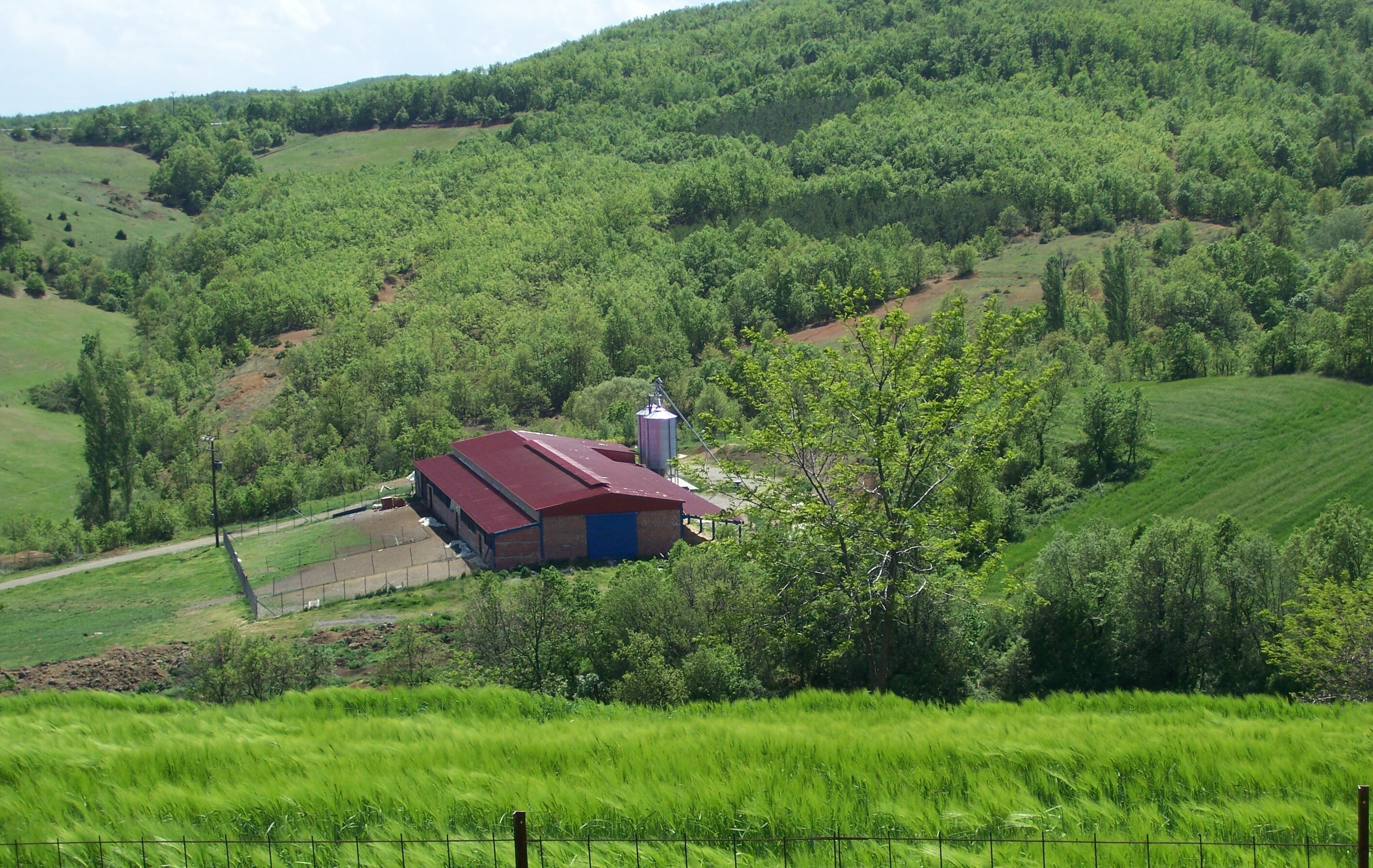 Cheese production unit in Mavronoros, Grevena, Greece